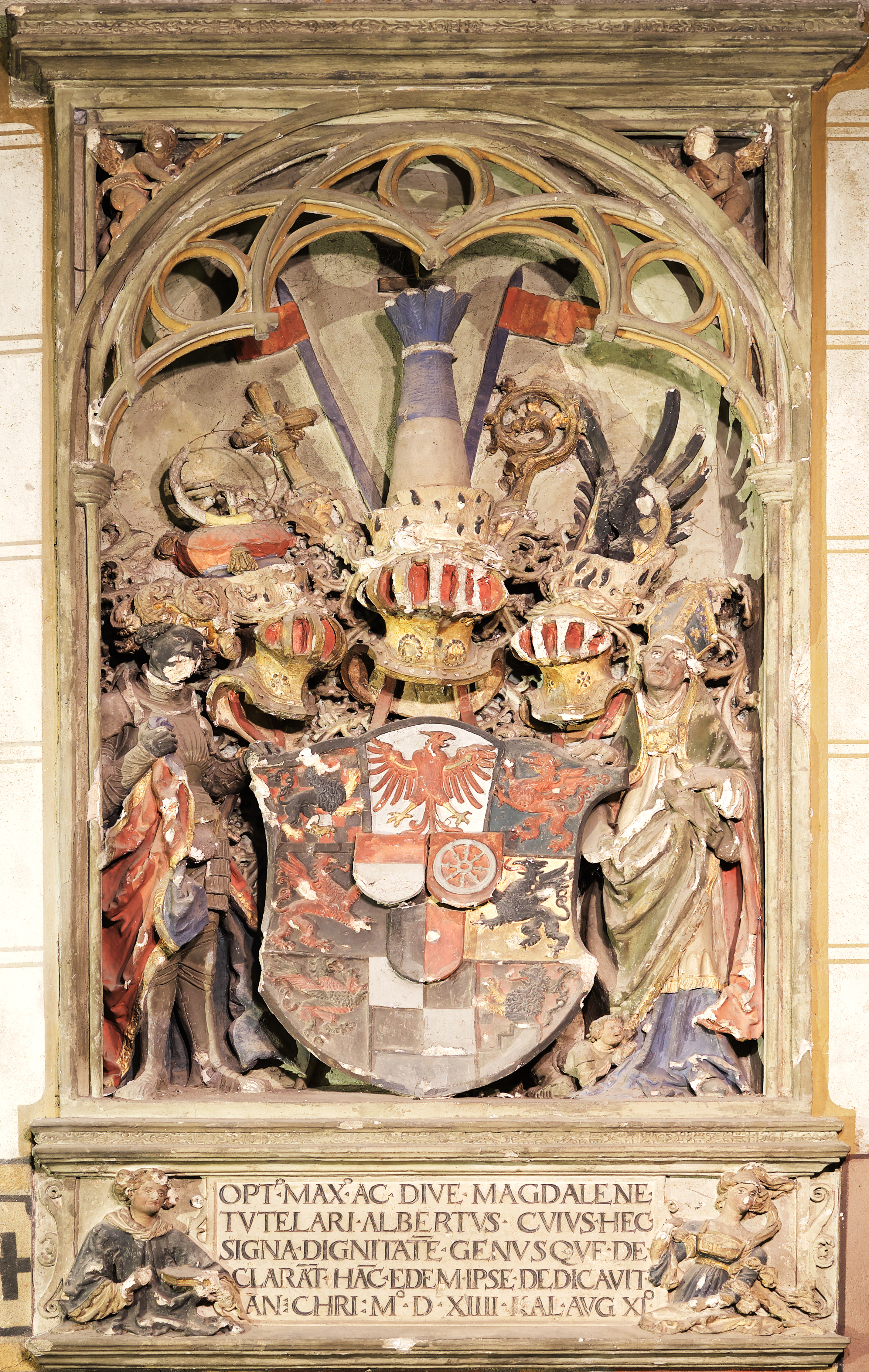 Dedication board (1515) by Peter Schro in the Magdalenenkapelle der Moritzburg, Halle